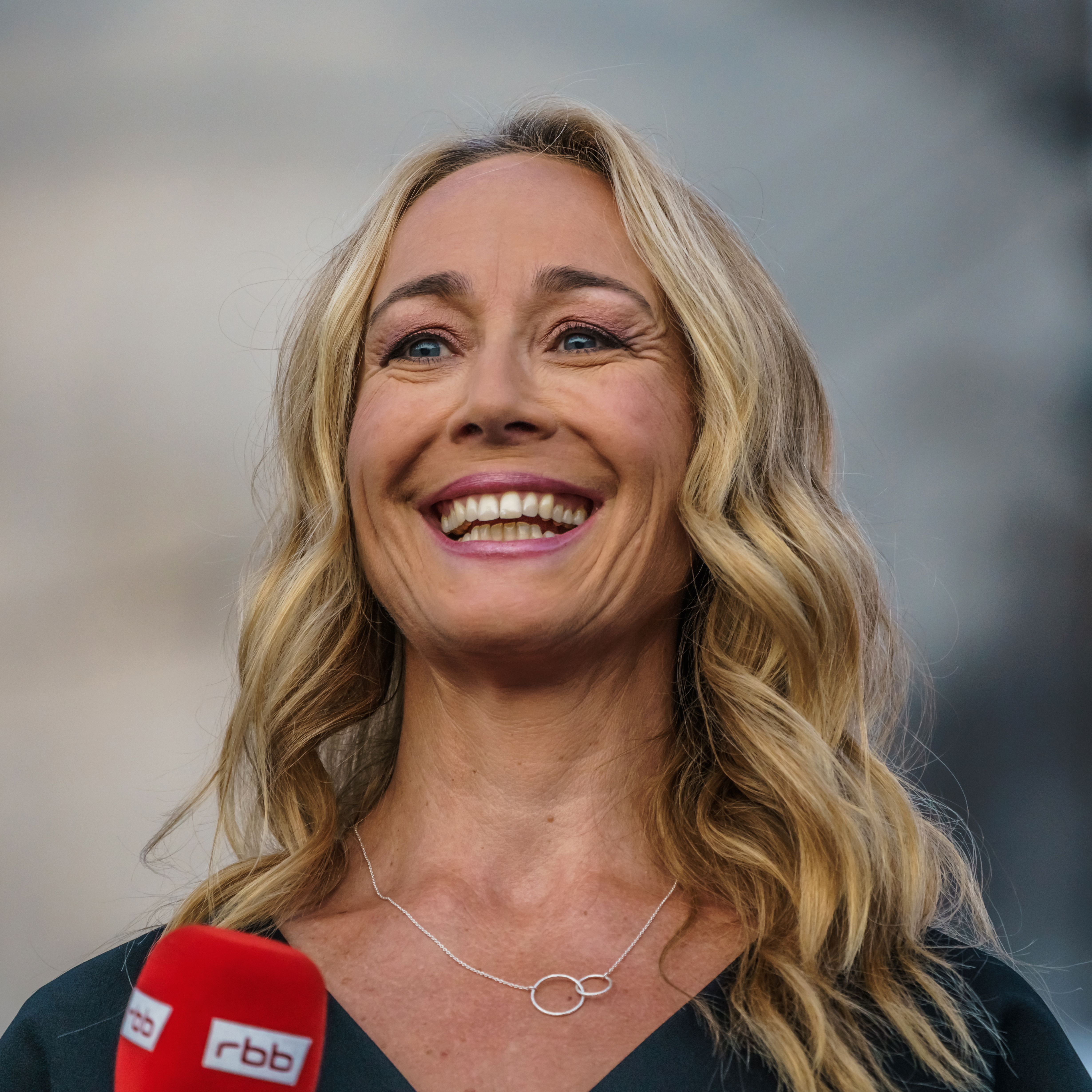 On 24 August 2019 the Berlin Philharmonics gave an open air concert at Brandenburg Gate in Berlin, with an audience of nearly 35,000 people. The conductor was Kirill Petrenko from Russia. The orchestra performed Beethoven's Symphony No. 9 D minor Op. 125.